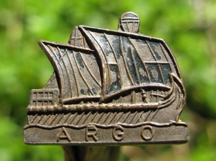 Membership badge for (Australian) ABC Argonauts Club c. 1955